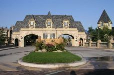 Orange County, China refers to a 60 million dollar, 143-unit housing development situated about one hour north of Beijing, China, comprised entirely of expensive American-style townhouses and tract homes, decorated and furnished with American products. The Chinese developer Zhang Bo built the community to anticipate the 2008 Olympics to be held in Beijing. All 143 units were sold within a month of going on sale, in a phenomenon the Beijing media called "The Orange Storm." Designed by architect Aram Bassenian, who authentically hails from Newport Beach, California in Orange County, California, the Orange County development is an example of wealthy Chinese literally adopting the suburban American lifestyle.